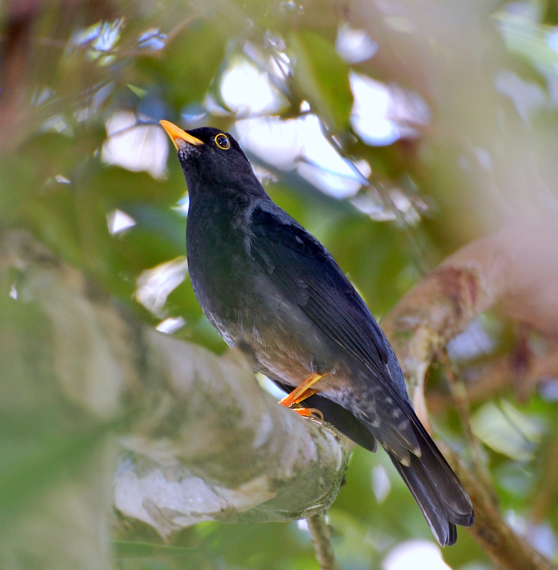 A (Platycichla flavipes), male